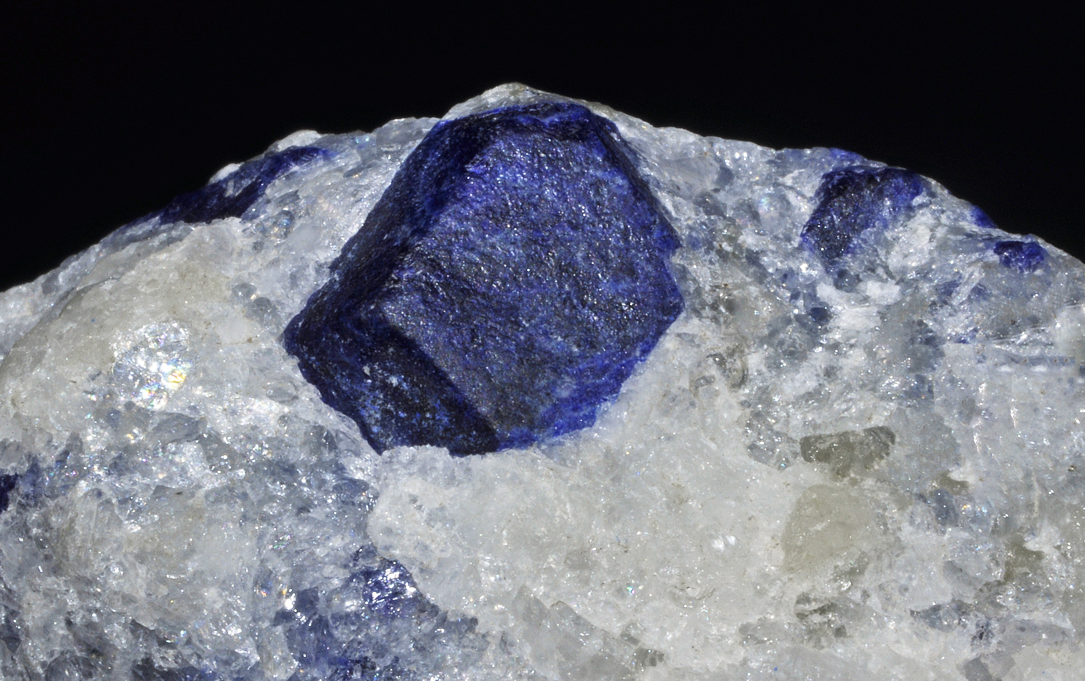 crystals of lazurite, calcite : Sar-e-Sang (Sar Sang ; Sary Sang), Koksha Valley (Kokscha Valley ; Kokcha Valley), Khash & Kuran Wa Munjan Districts, Badakhshan Province (Badakshan Province ; Badahsan Province), Afghanistan